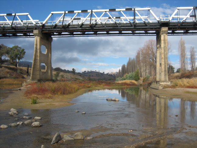 This was after the first rain in a long while ... cold water to stand in, but there is nothing quite like rain after drought.Murrumbidgee River After Rain